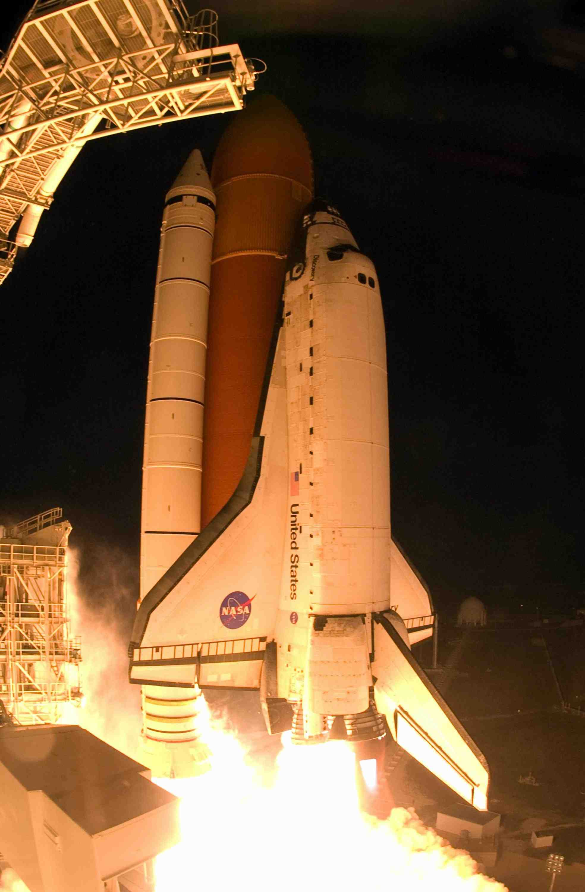 Discovery Leaves Launch Pad. Fire seems to surround Launch Pad 39A at NASA's Kennedy Space Center in Florida as space shuttle Discovery leaps from the pad to begin its STS-119 mission. Launch was on time at 7:43 p.m. EDT.